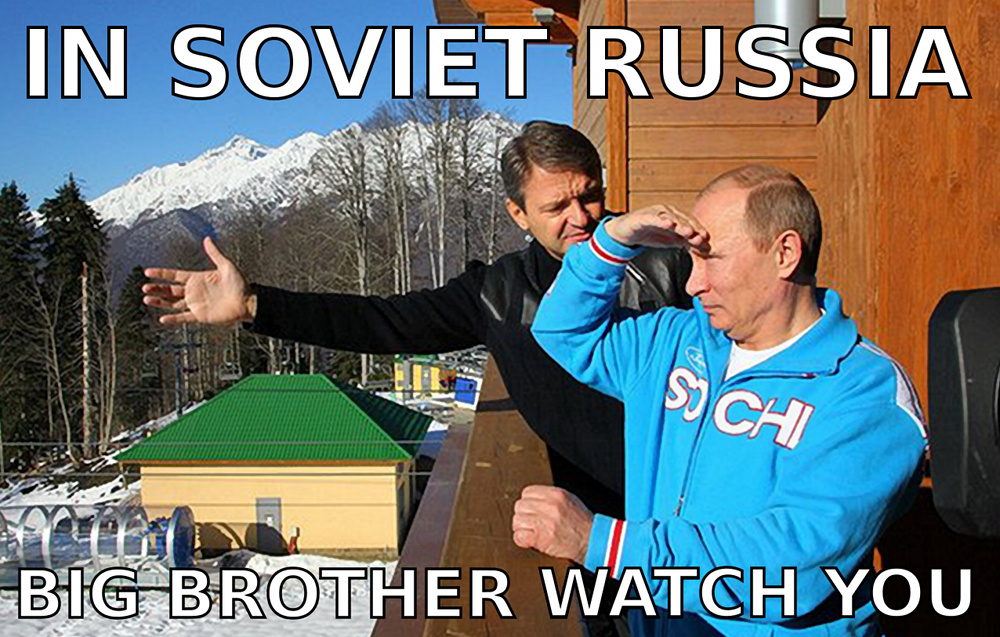 Russian reversal example, also known as "In Soviet Russia..". In Soviet Russia, Big Brother watches you. Vladimir Putin with Krasnodar governor Alexander Tkachev, ski resort Krasnaya Polyana, Sochi, Krasnodar Krai, January 3, 2013.